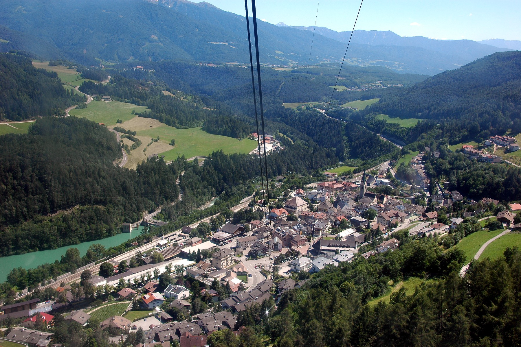 View at Mühlbach from Cablecar 1 of the Meransnerbahn